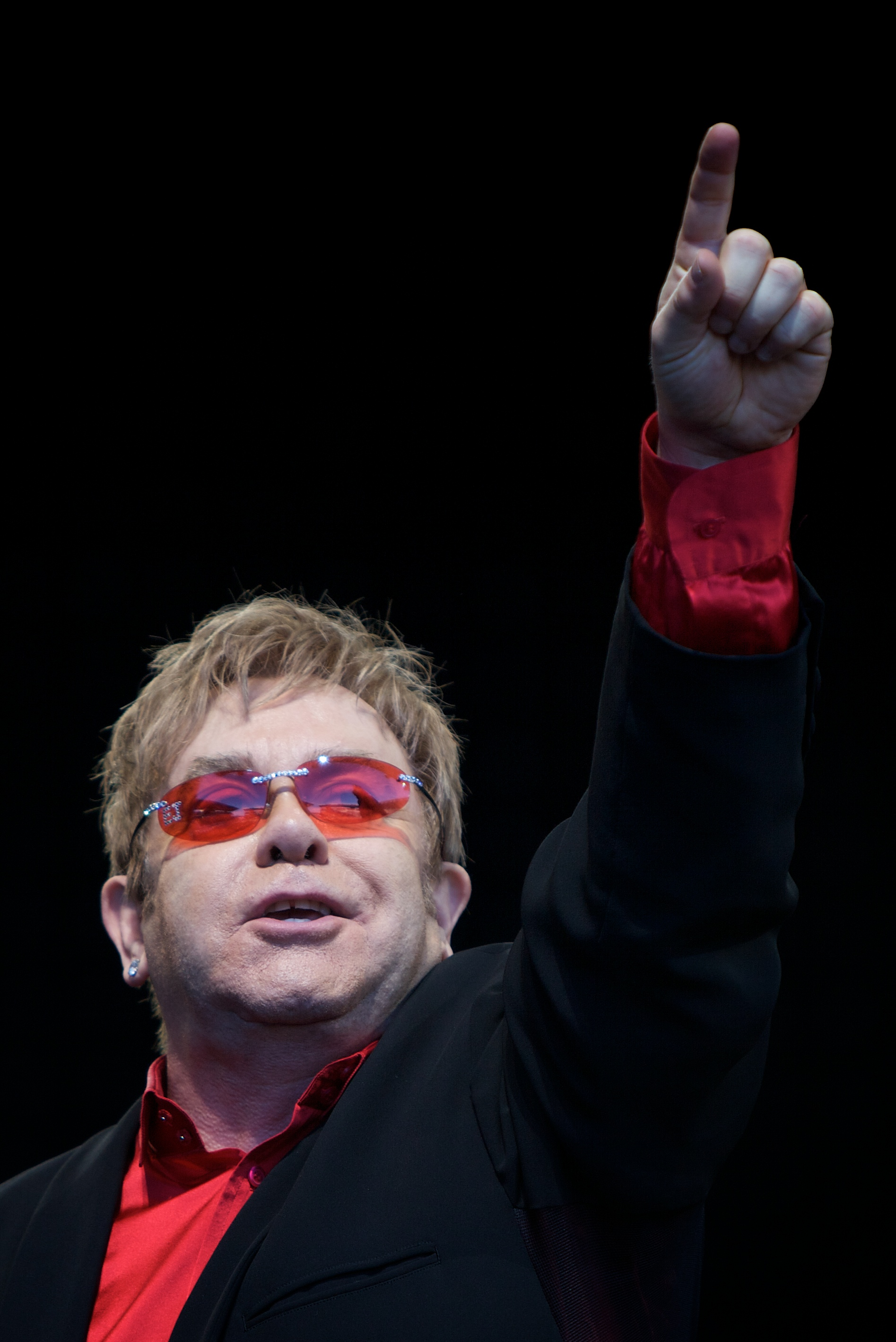 Elton John at the Skagerak Arena, Skien, Norway on 20 June 2009.